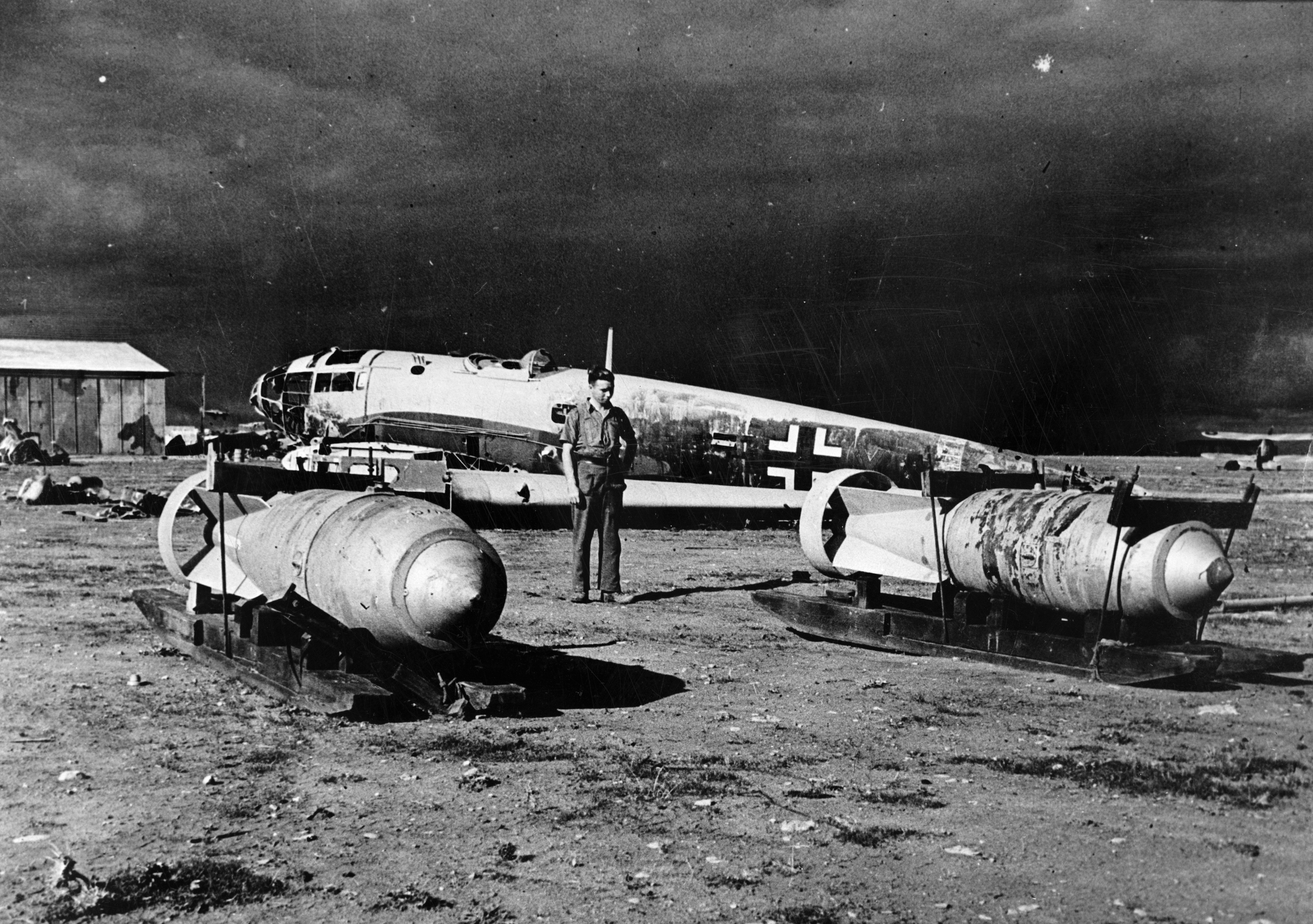 Two German SC 1000 (1.000 kg) bombs in front of a wrecked Heinkel He 111H bomber at Benghazi airfield in early 1943. Note the British biplane in the background.